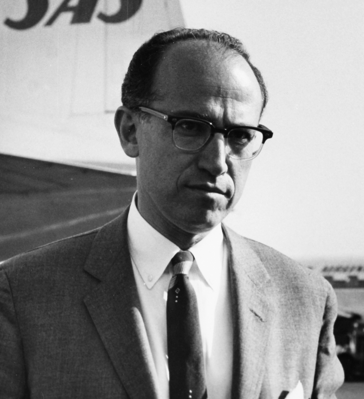 Dr Jonas Edward Salk, creator of Salk polio vaccine, at Copenhagen Airport.